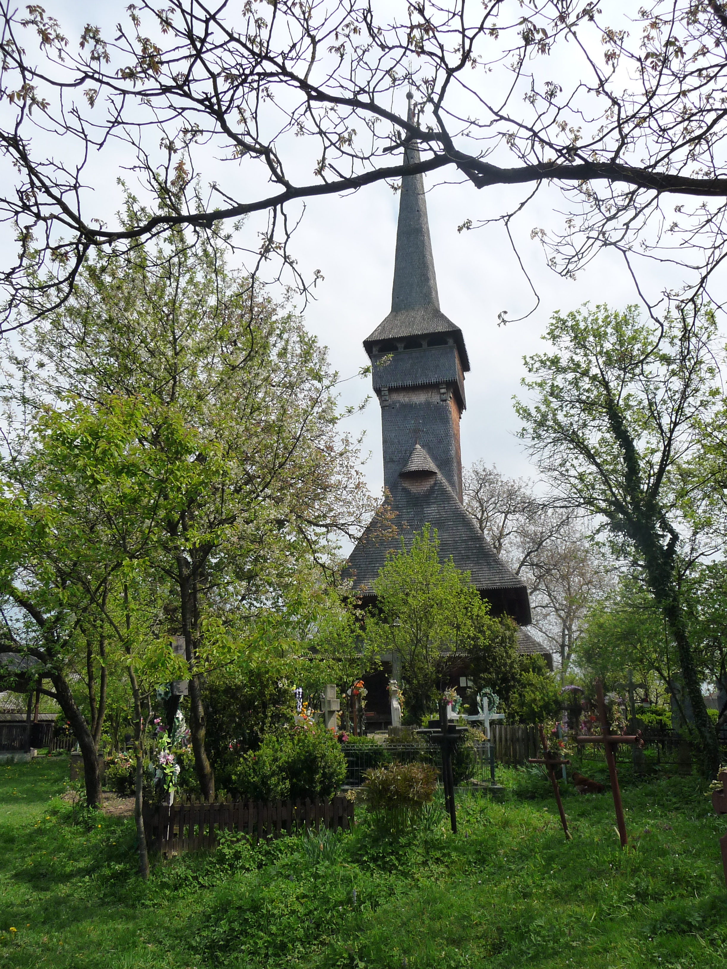 Wooden church in Deseşti, Maramureş